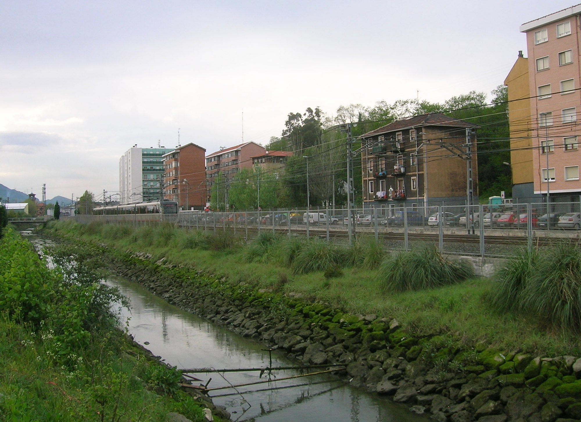 River Gobela at Txopoeta neighbourhood, Leioa.